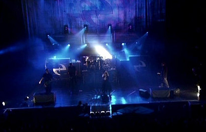 Evanescence in concert in 2006